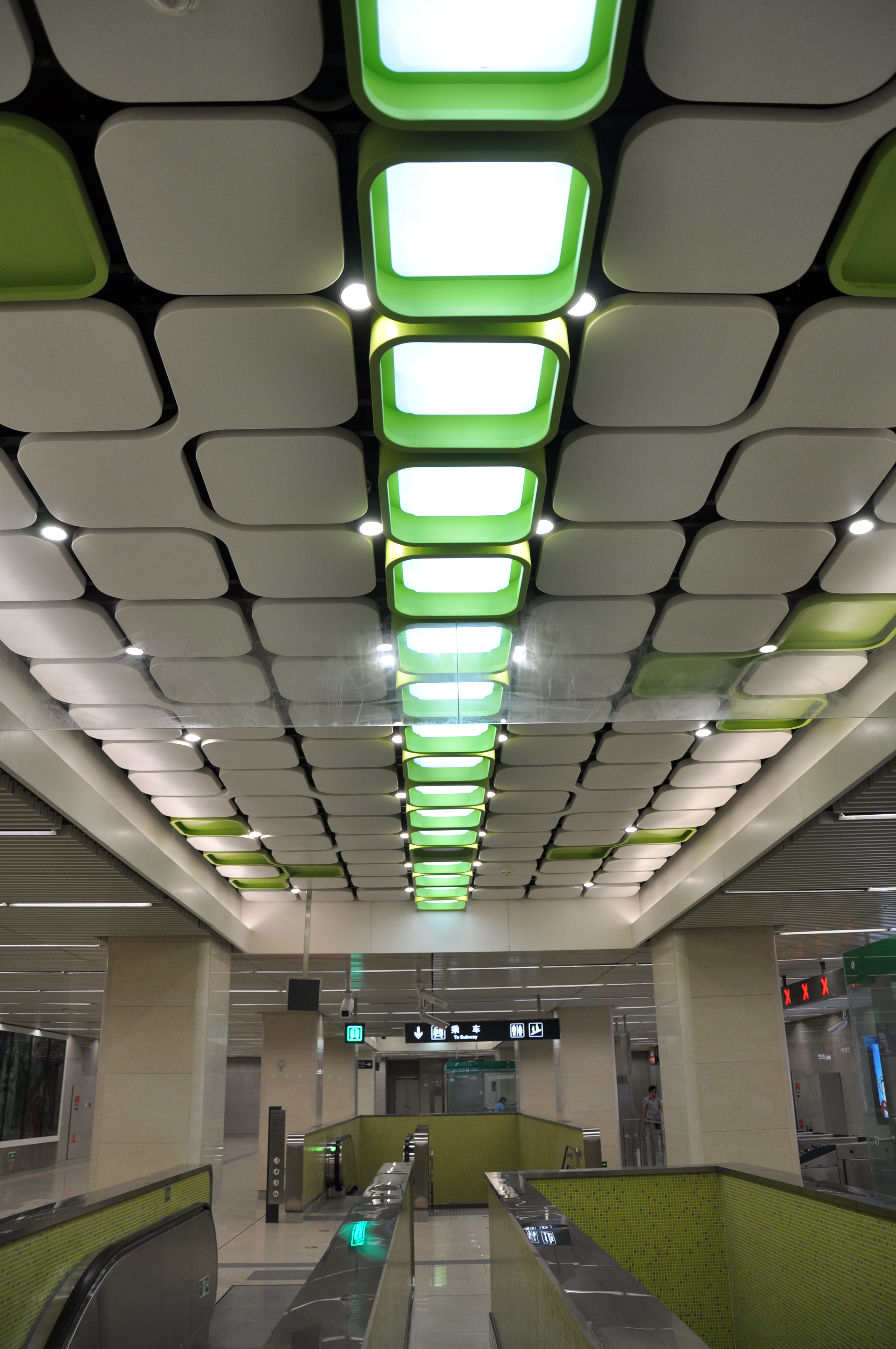 The ceiling of Lincuiqiao station, Line 8, Beijing Subway. The Axis design indicates that the line is under the axis of Beijing.